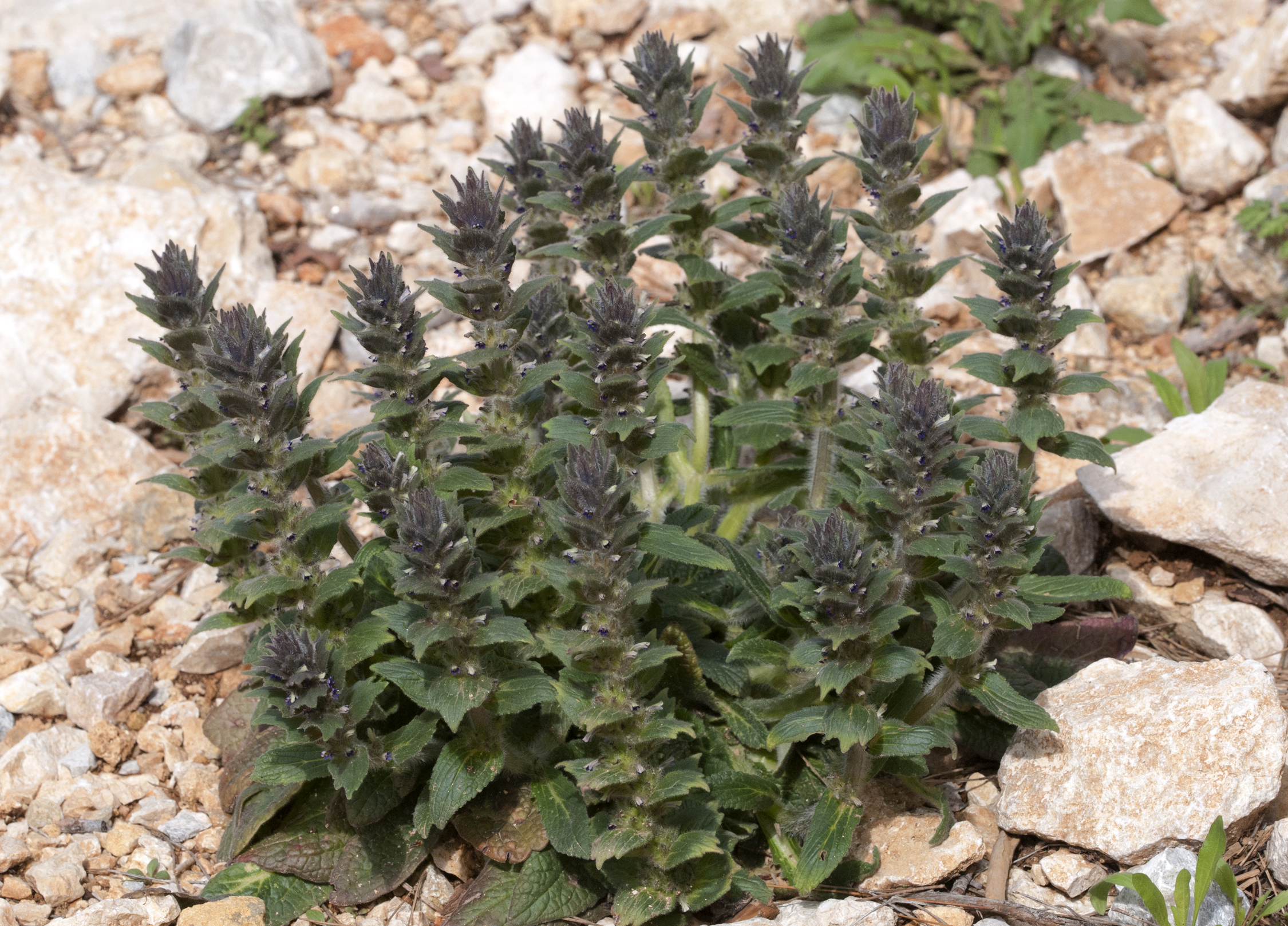 Oriental Bugle (Ajuga orientalis) in Canyon Kapıkaya. Karaisalı - Adana, Turkey.